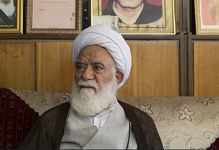 Ali Asghar Baghani, Sabzevar representative at the 1st and 4th Majlis of Iran. He is one of the survivors of Hafte Tir bombing.